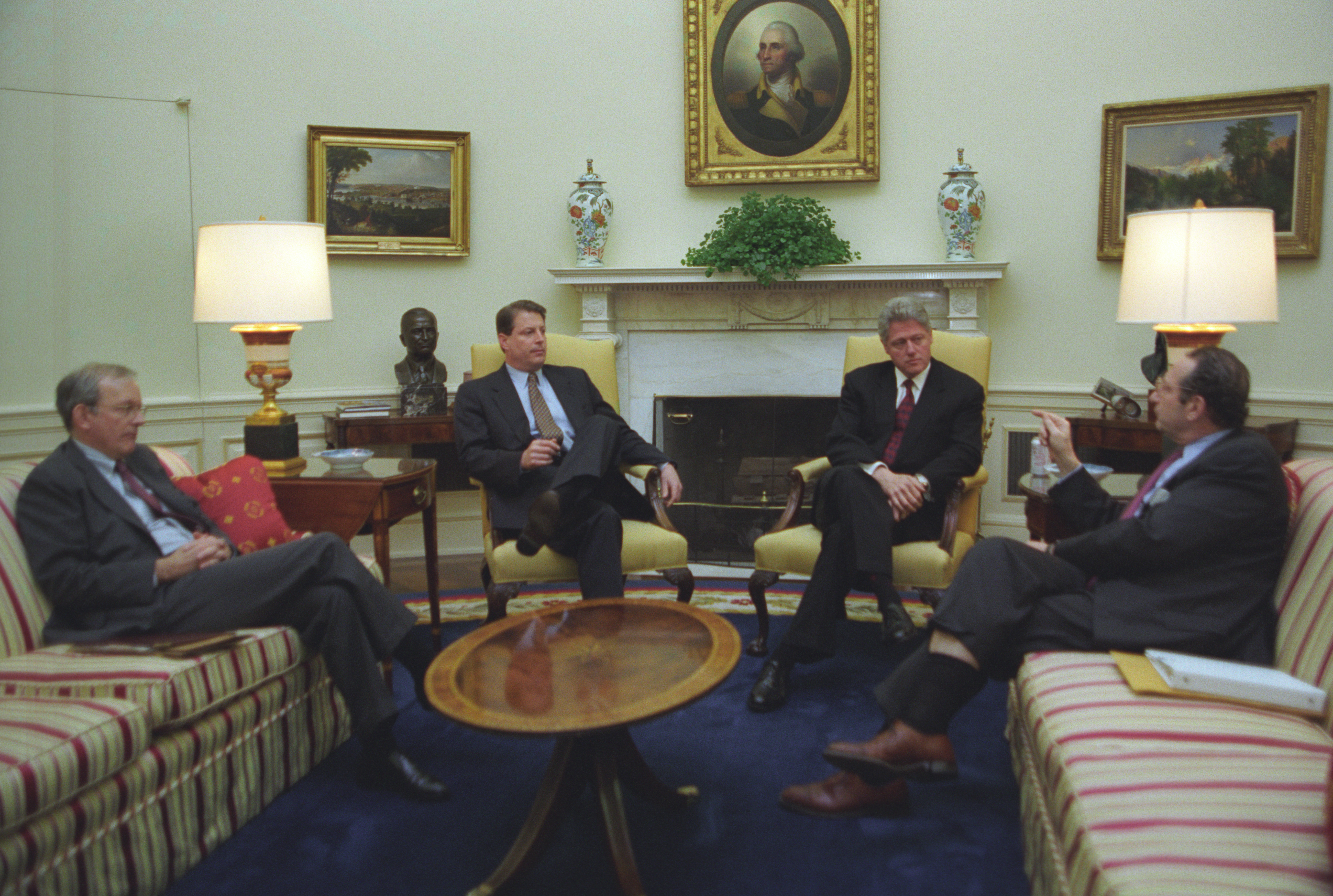 February 22, 1996: President Clinton and Vice President Gore meet on Bosnia with CIA Director John Deutch and National Security Advisor Tony Lake in the Oval Office. (Credit: William J. Clinton Presidential Library) Hosted by the Clinton Library and the Clinton Foundation, the document release was spearheaded by CIA’s Historical Review Program (HRP), which identifies, collects and produces historically relevant collections of declassified materials. The Bosnia collection—the youngest ever released in HRP’s 20-year existence—is available online at A video recording of the symposium is available at